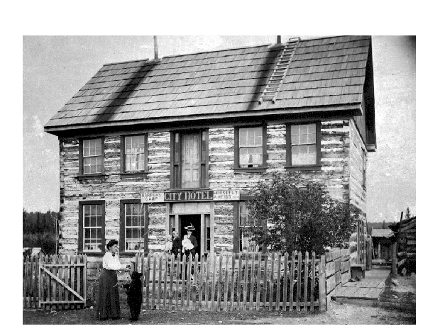 City Hotel in Horsefly, British Columbia, Canada.